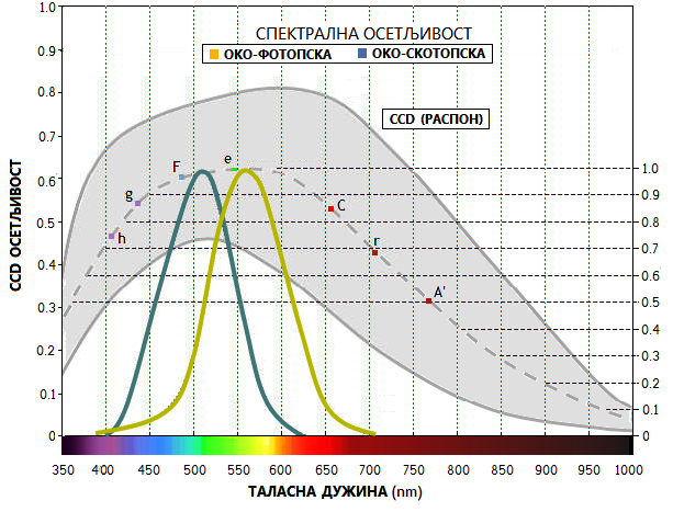 СПЕКТРАЛНА ОСЕТЉИВОСТ ОКА